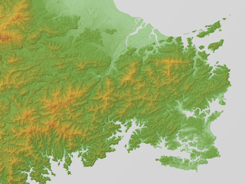 Shima Peninsula in Mie Prefecture, Honshu, Japan.